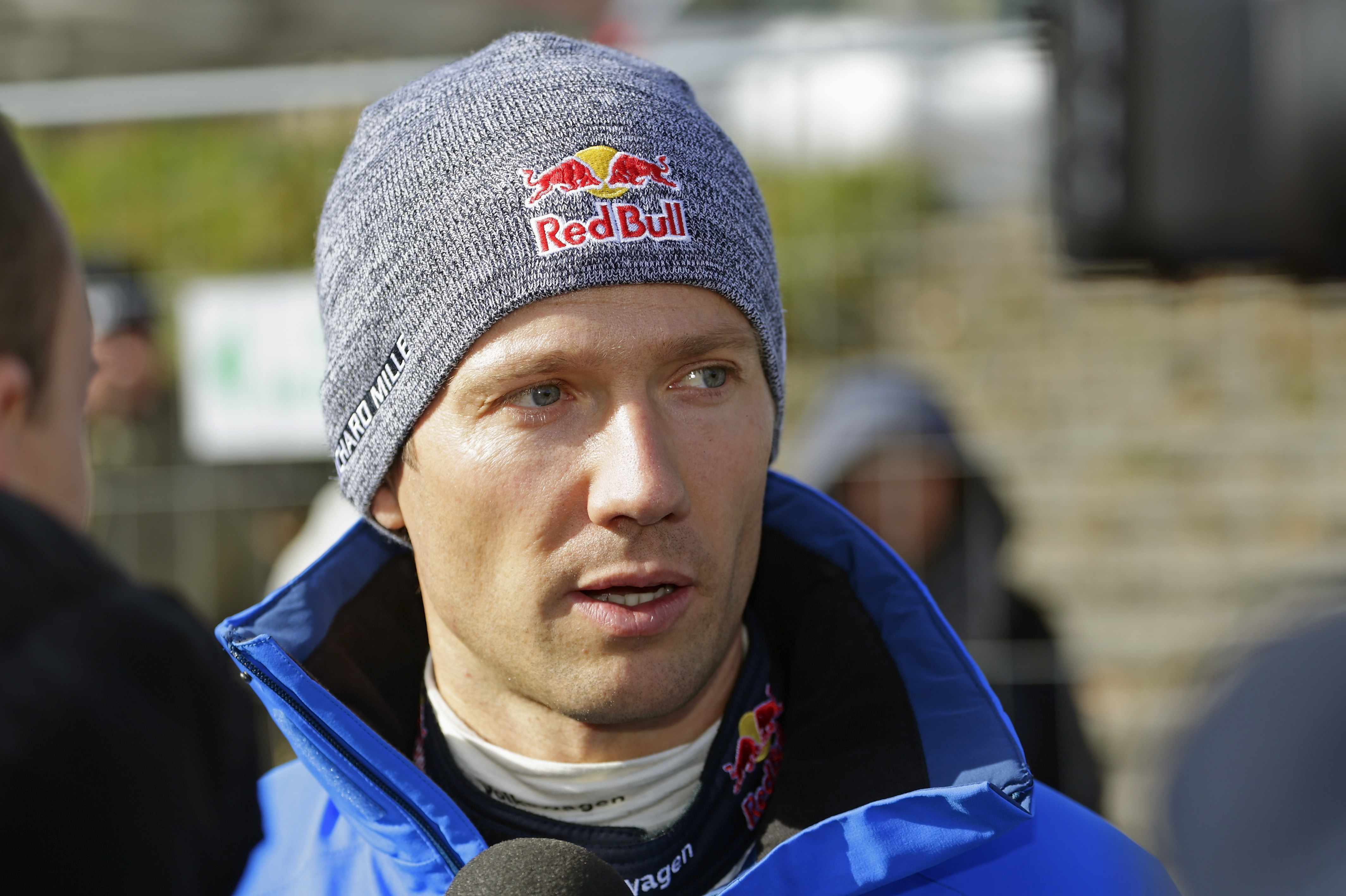 Sébastien Ogier at the 2016 Rallye Automobile Monte Carlo.